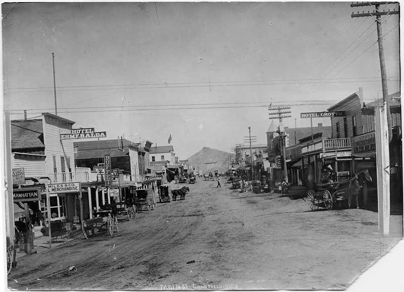 Main Street, Goldfield, Nevada, 1904. Goldfield was a massive boomtown between 1903 and 1940. As of 2007, it is a ghost town.